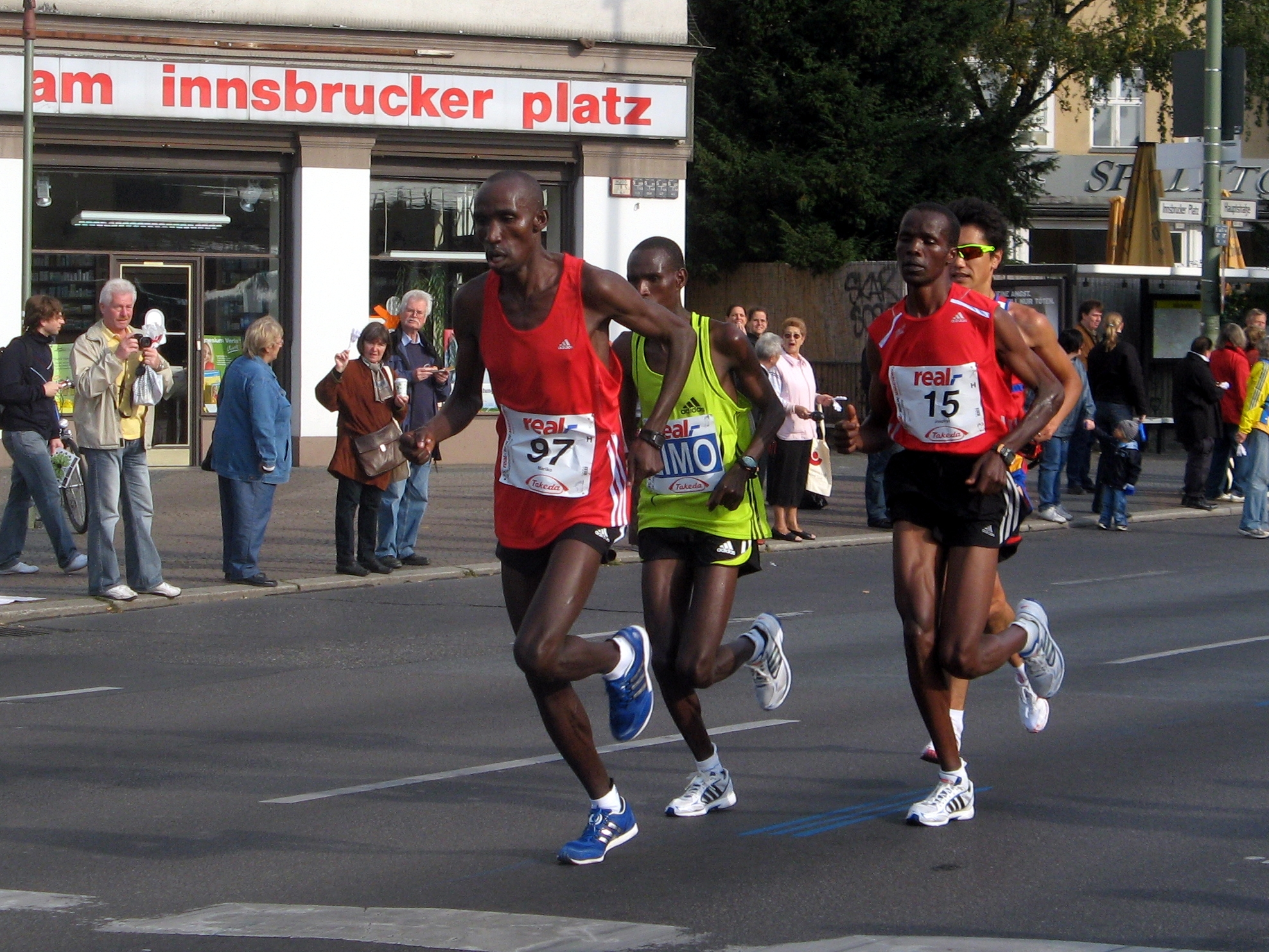 Berlin-Marathon 2008, Mariko Kipchumba (#97, finished at 4, Andrew Limo (yellow, finished at 11), Josphat Keiyo (#15, finished at 14) and the unknown with the sunglasses at Kilometer 24